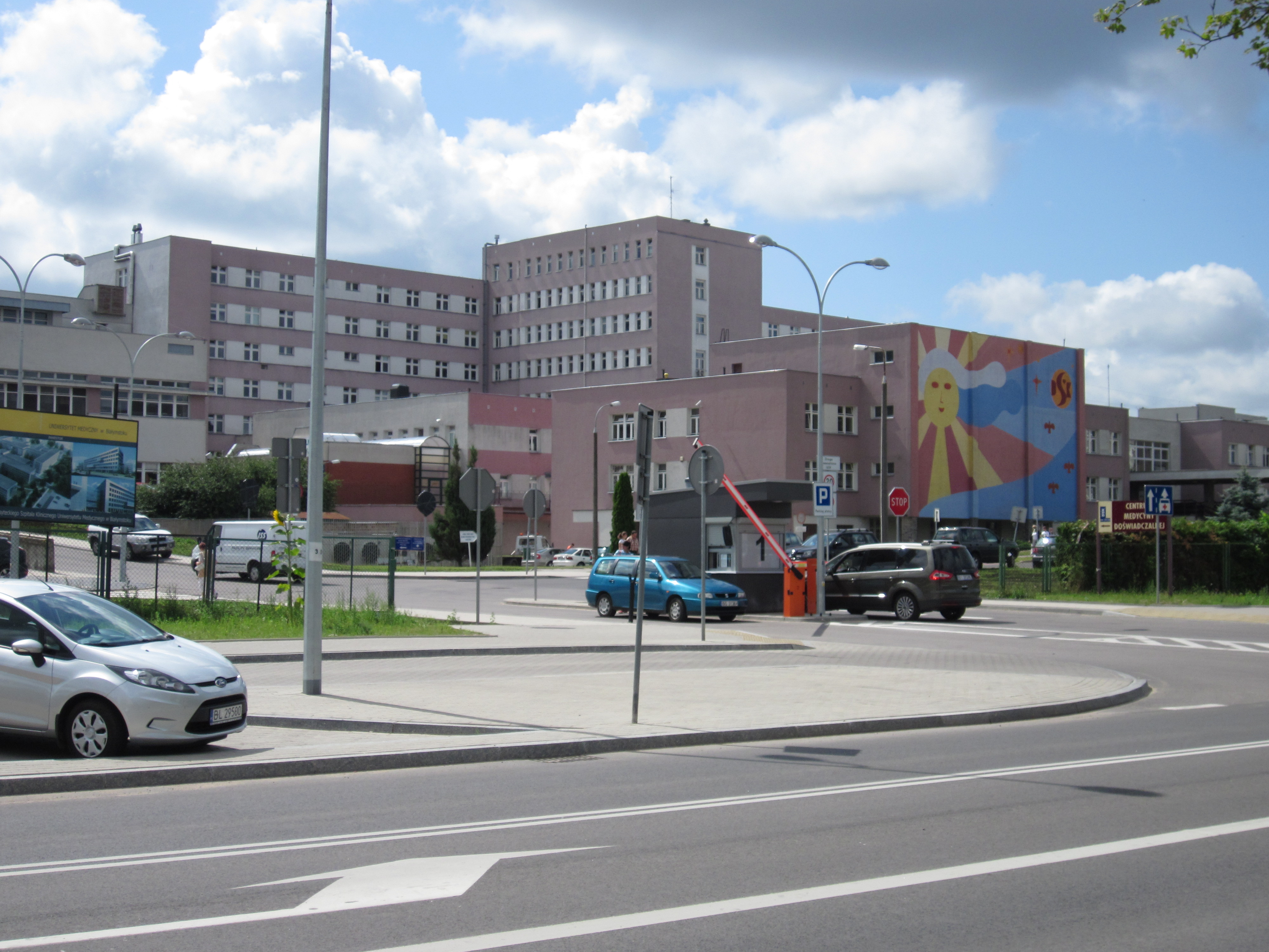 University Children's Hospital named LL Zamenhof in Białystok